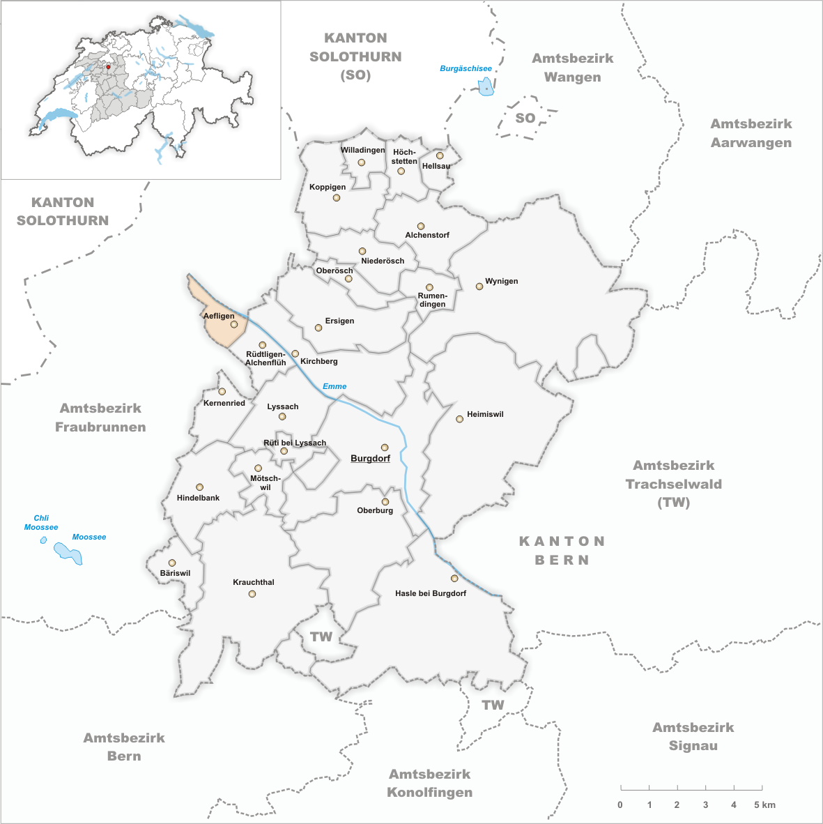 Municipality Aefligen